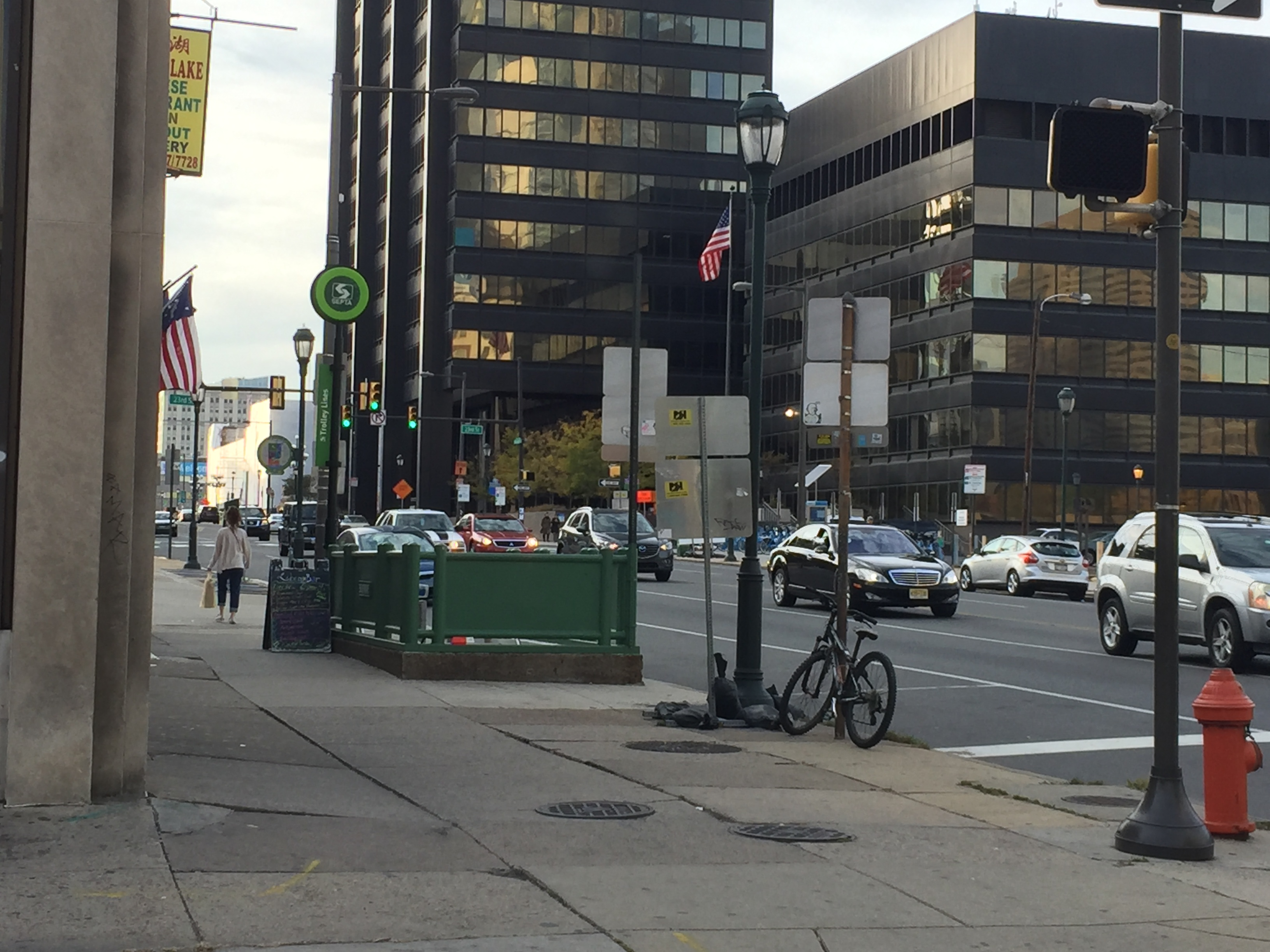 22nd Street station